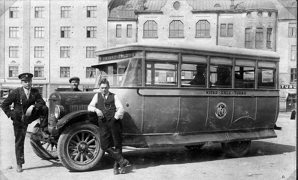 Old Haapasalo REO bu year 1928